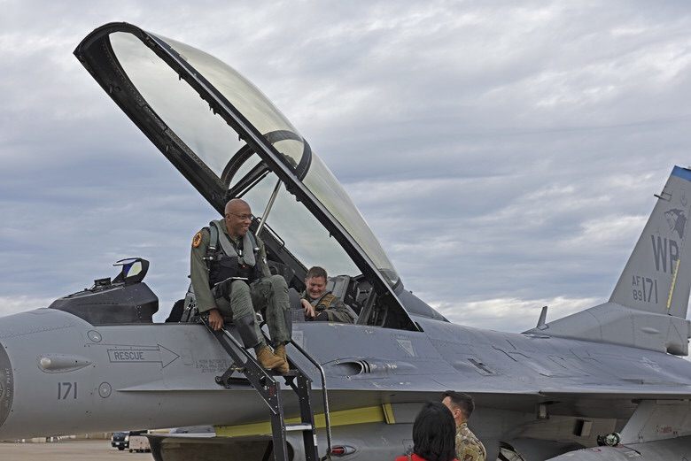 General Charles Q. Brown Jr. flying a Lockheed Martin F-16 Fighting Falcon to Kunsan Air Force Base.